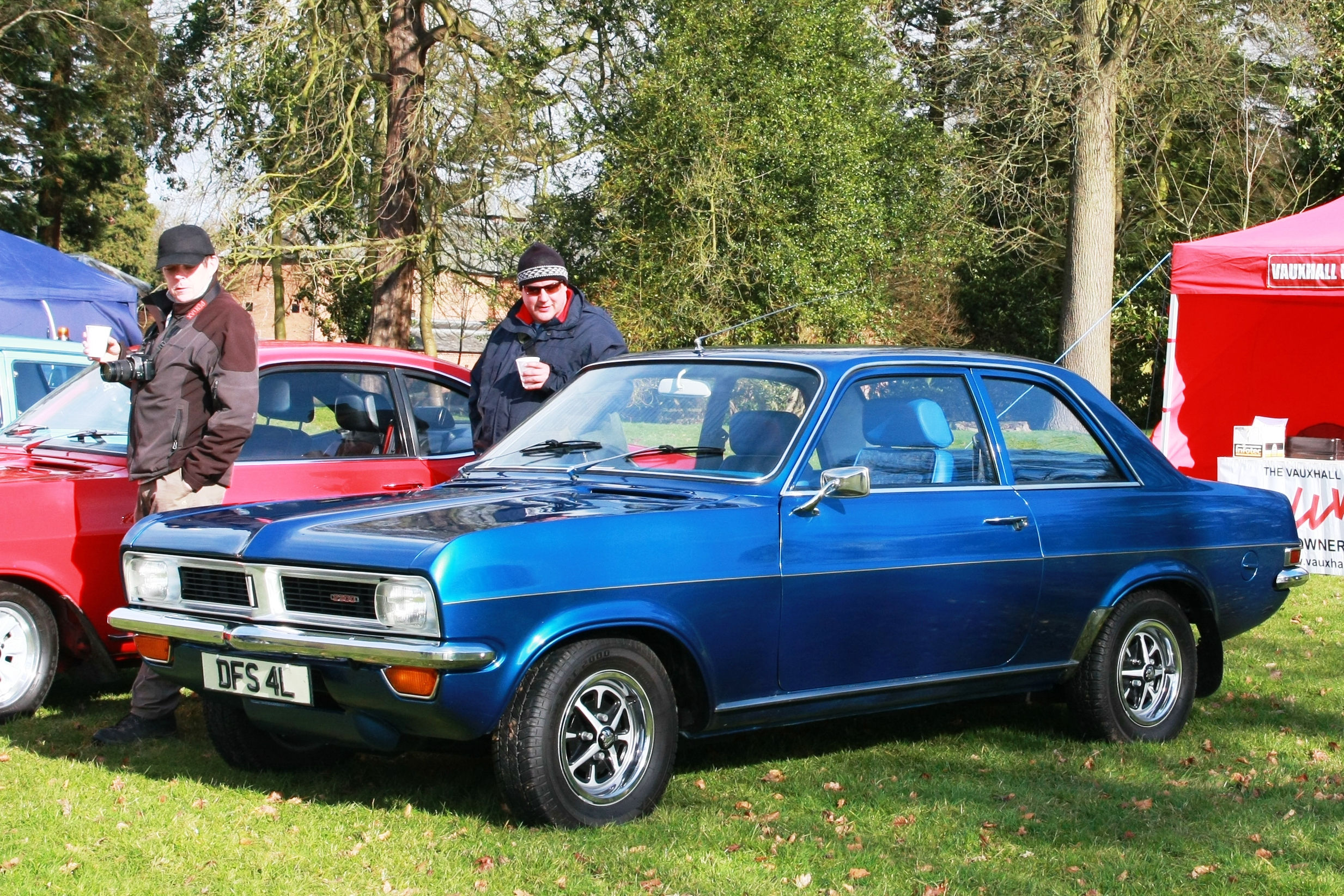 Vauxhall Viva HC (1973) at Weston Park (2016) * In (I think) September 1973 the 2300 cc engined Viva was rebadged as the Vauxhall Magnum, which means this must be one of the later Viva 2300s.